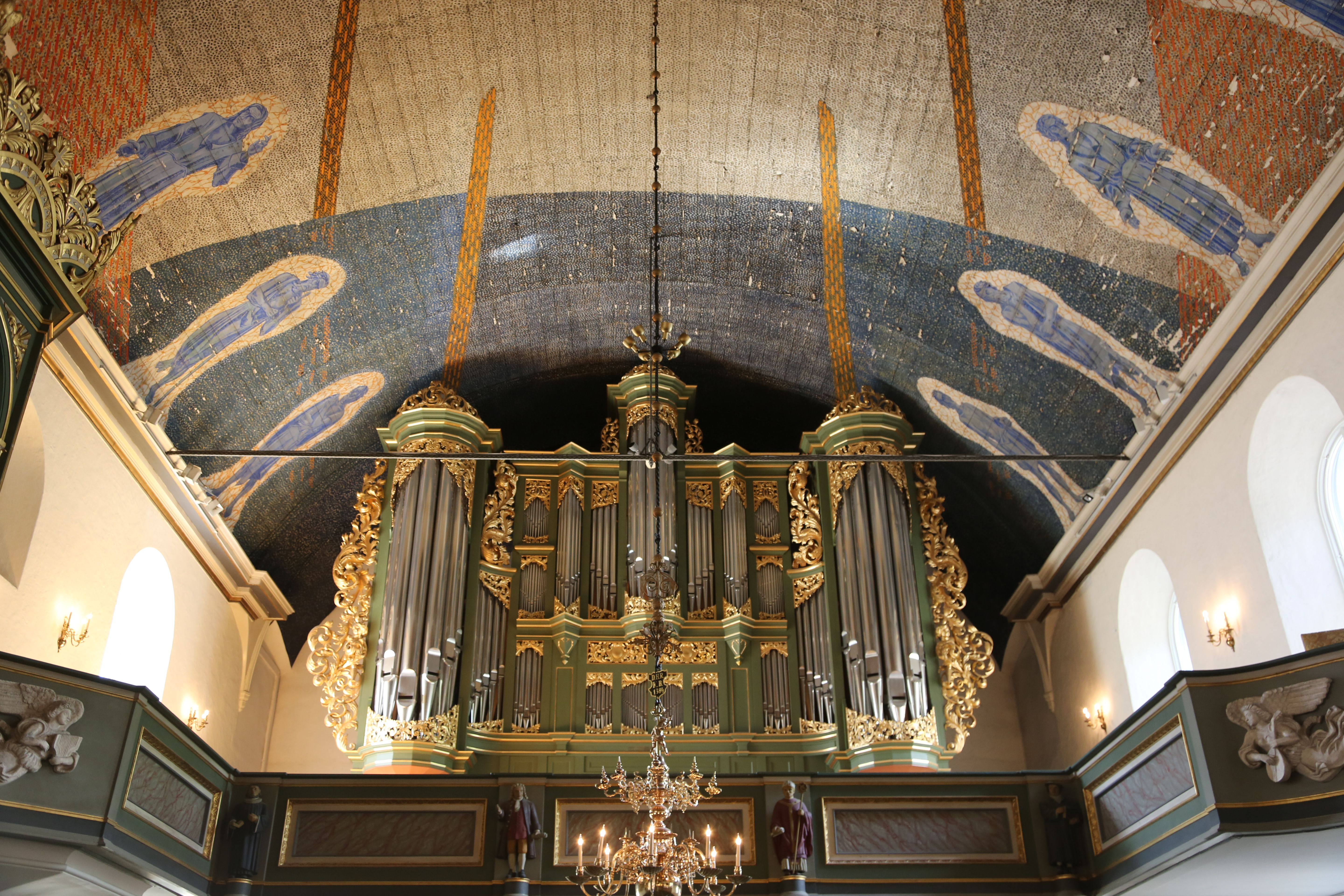 Oslo domkirke (Oslo Cathedral). Organ